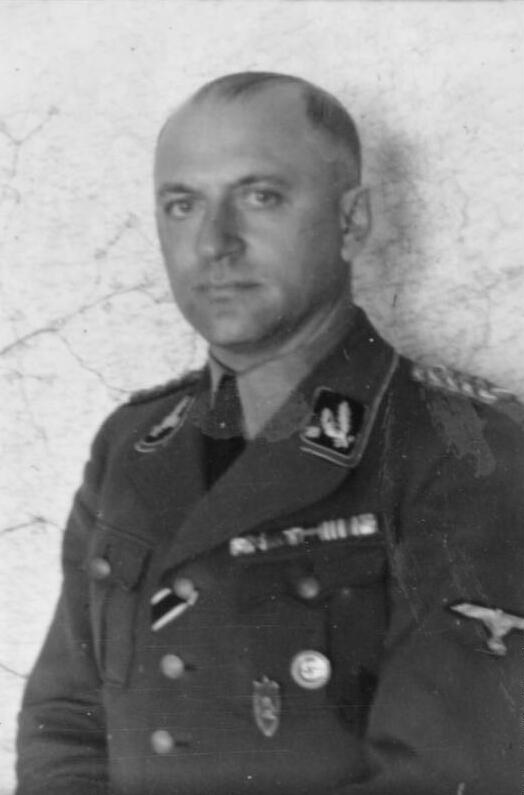 Information added by Wikimedia users.Brigadeführer SS Heinz Jost (Achamer-Pifrader, Humbert)